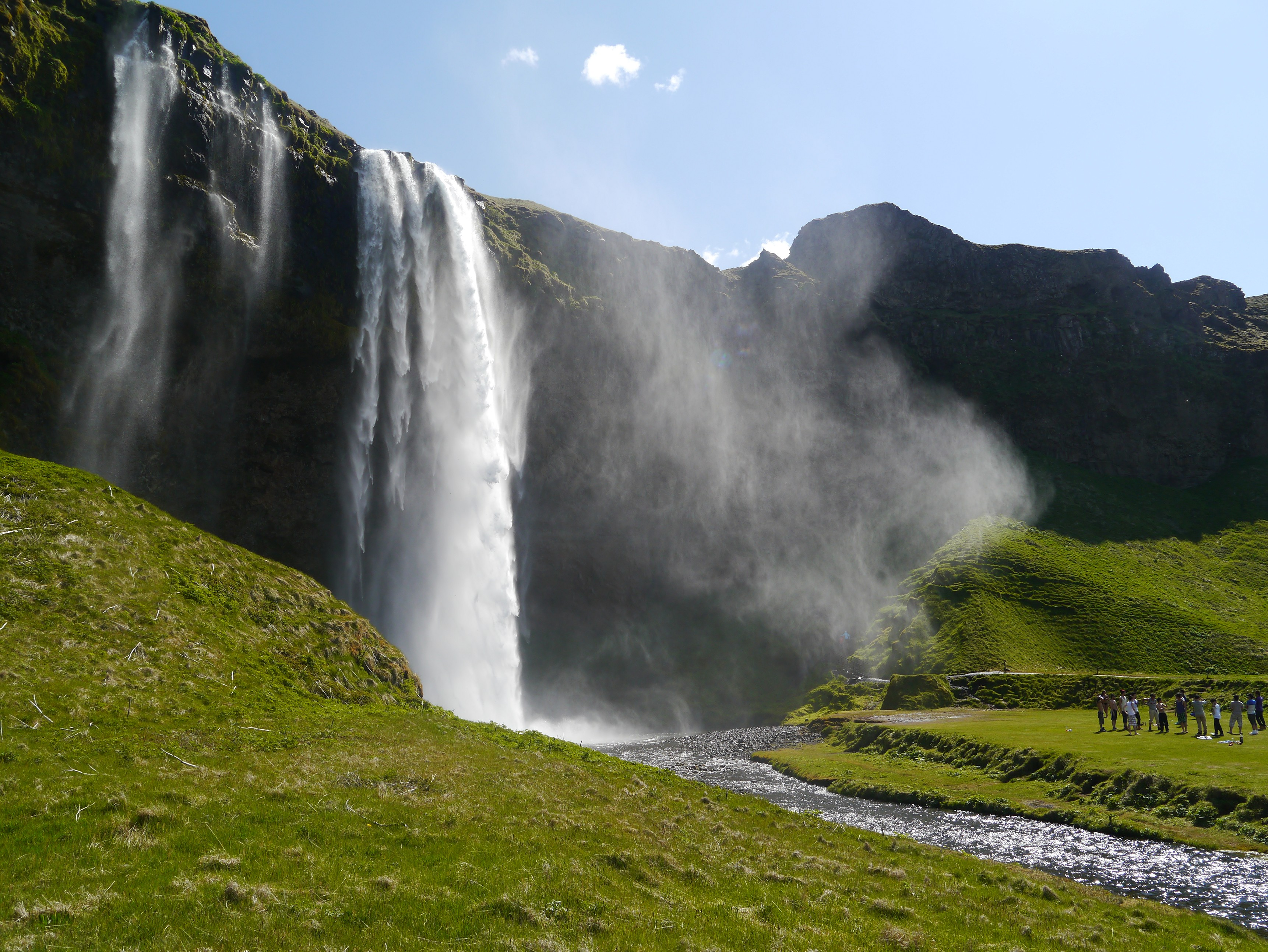 the Seljalandsfoss